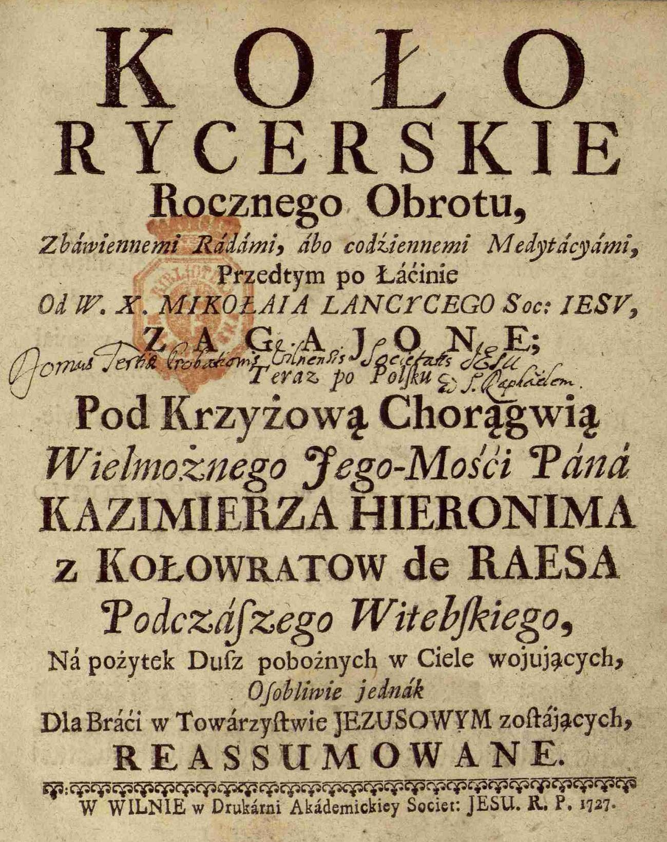 Mikołaj Łęczycki "Koło rycerskie rocznego obrotu"